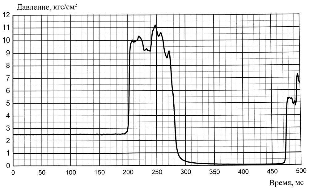 Experimental pressure vs. time dependence for water hammer in a pipeline. Pressure falls below atmospheric for time interval between approximately 300 and 450 ms. Labels (in Russian): "Time, ms", "Pressure, kgs/cm^2". Source (with copyright note)